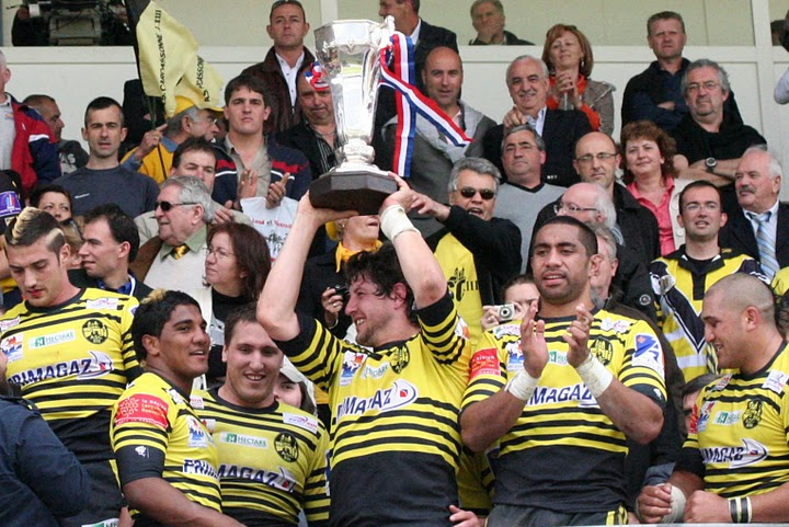 AS Carcassonne celebrate after being presented with the Lord Derby Cup in 2009 after beating Limoux.